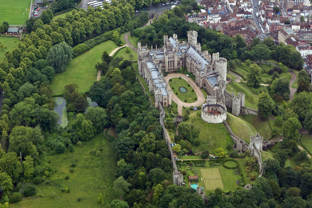 Arundel Castle, West Sussex, England as seen from a light aircraft.